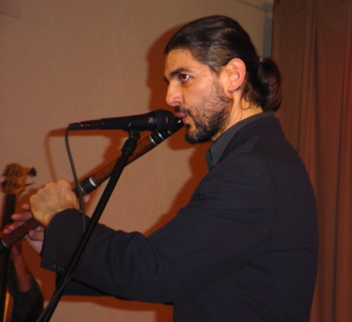 Theodosii Spasov. The photo is taken in April 2002 in Boston.